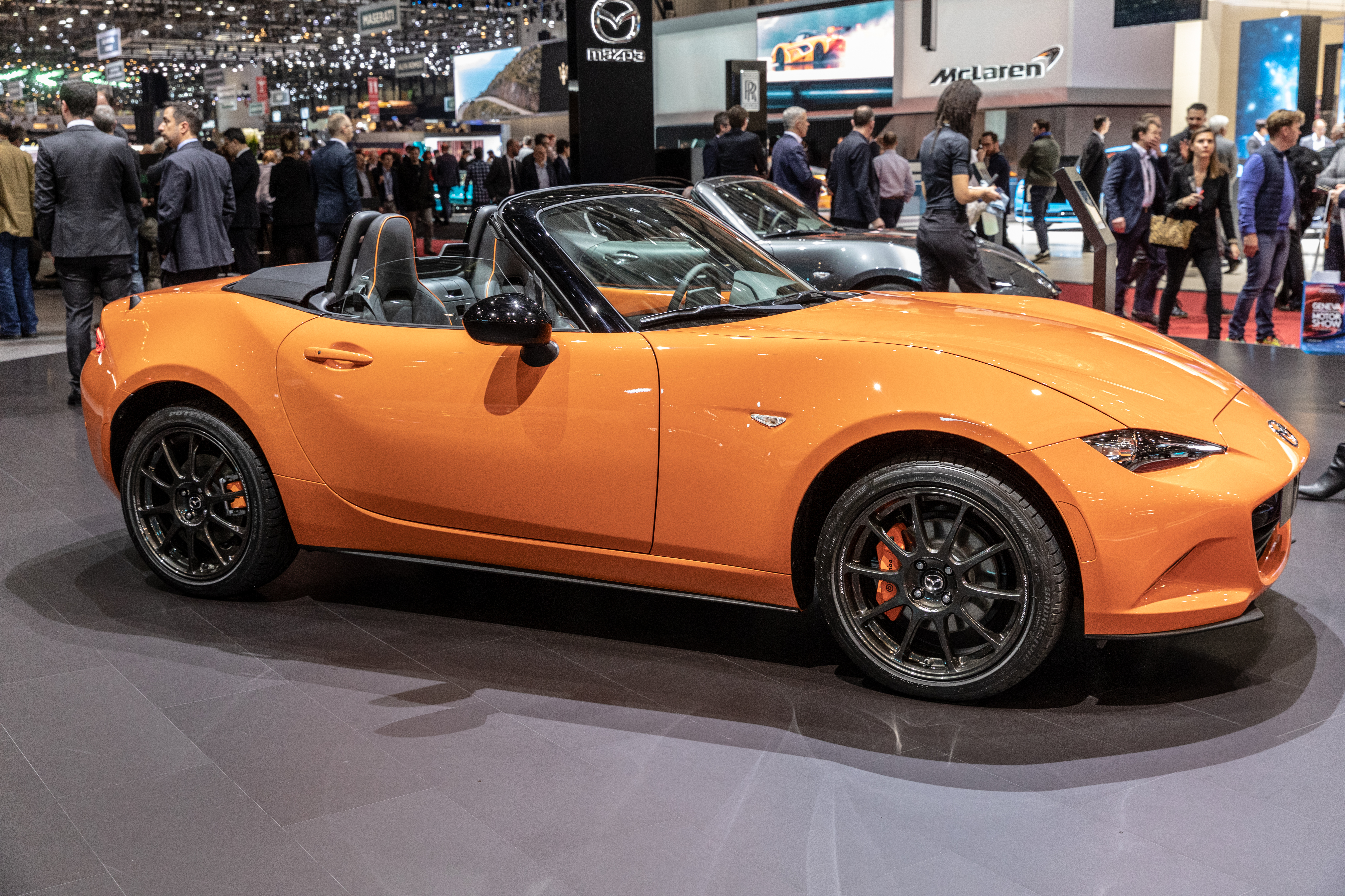 Geneva International Motor Show 2019, Le Grand-Saconnex